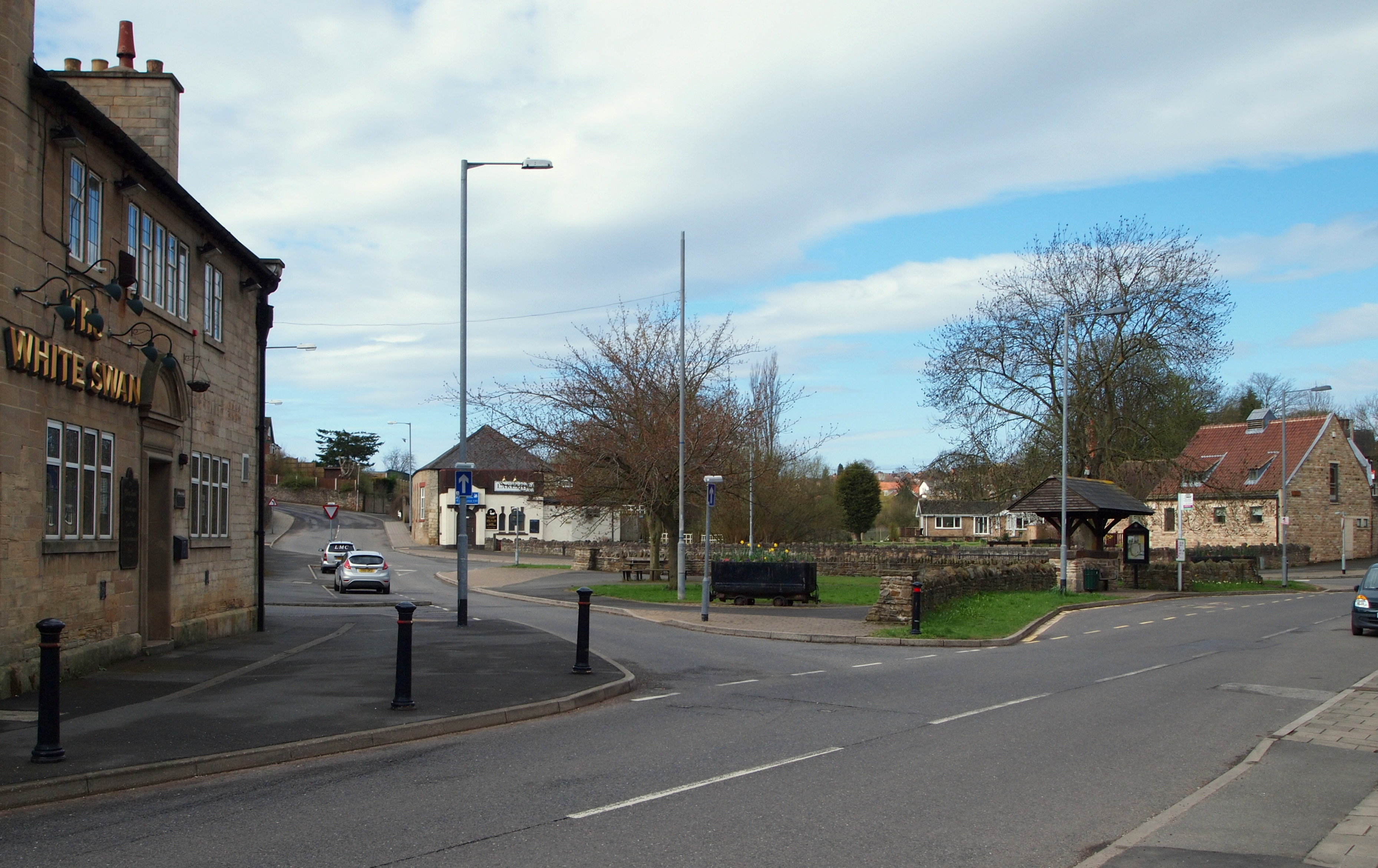 Pleasley village centre, on the outskirts of Mansfield, Nottinghamshire, just off the A617 road leading out of Mansfield towards Chesterfield. The area shown is known as Meden Square, with the dammed River Meden, mill pond and stone built Meden Mill, a former water-powered C17th corn mill now a private residence roofed with red pantiles, seen to the middle and right of image.